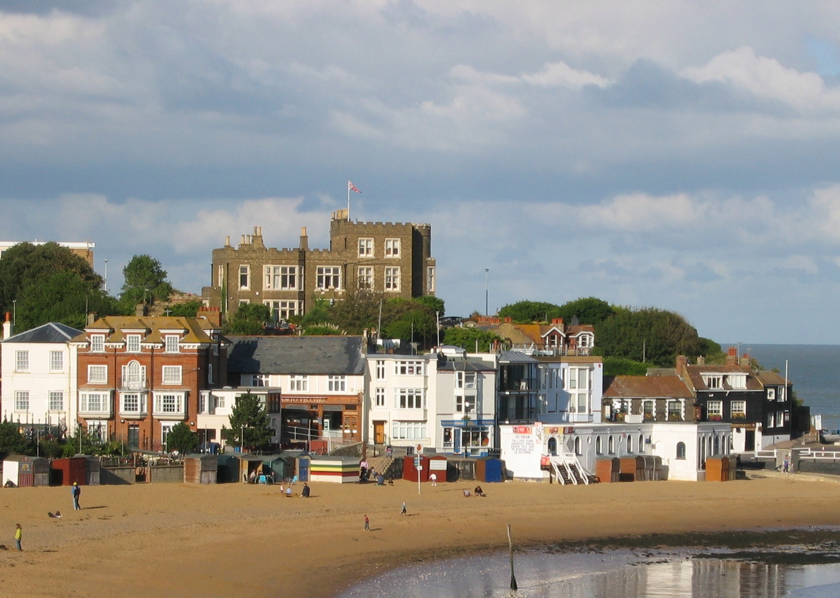 Bleak House, Broadstairs, England. Photo by Heron on 3rd October 2005.